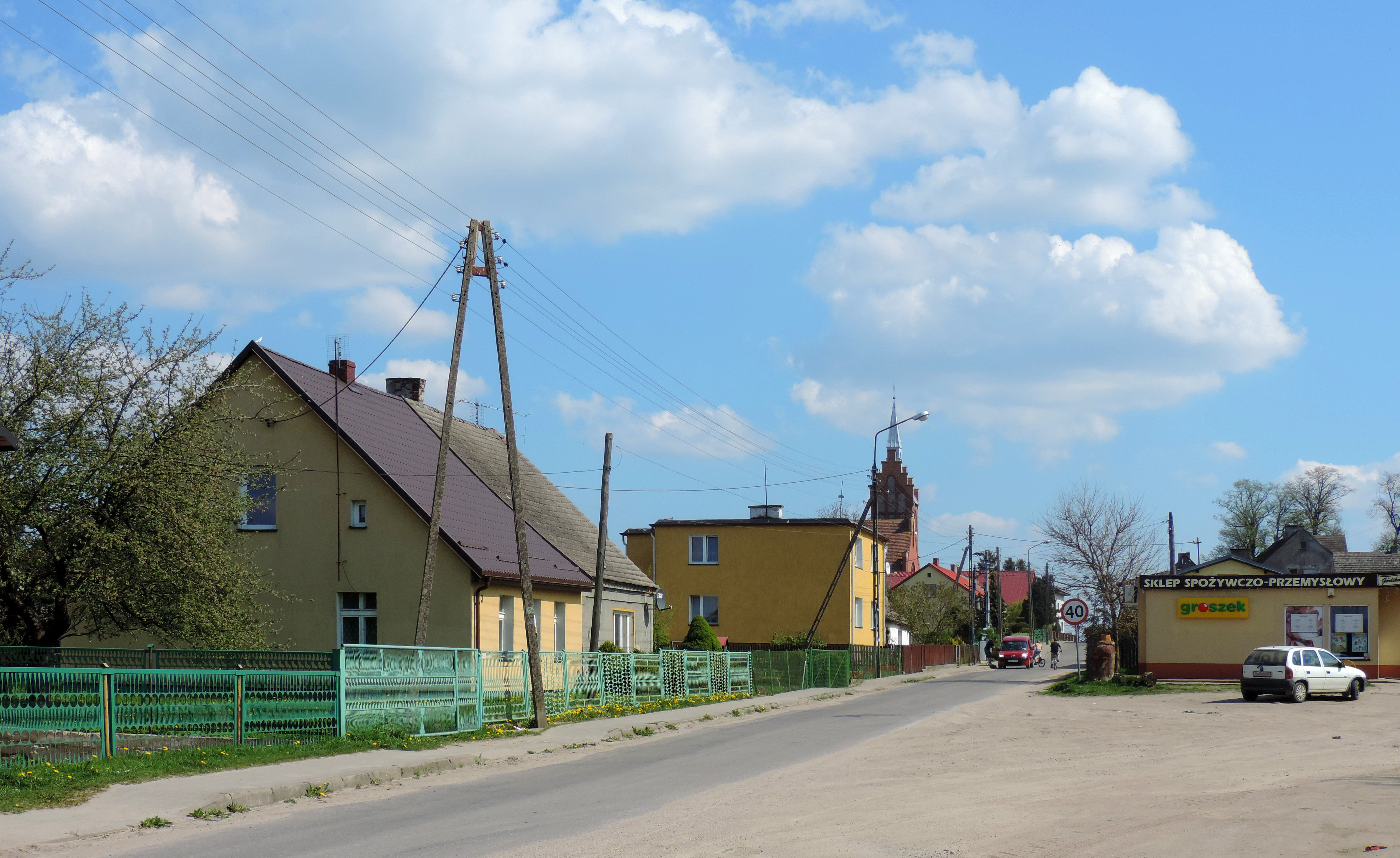 Garczegorze